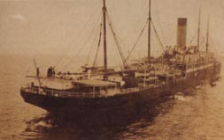 The Republic sinking by the stern after having been hit by the Lloyd Italiano liner Florida.